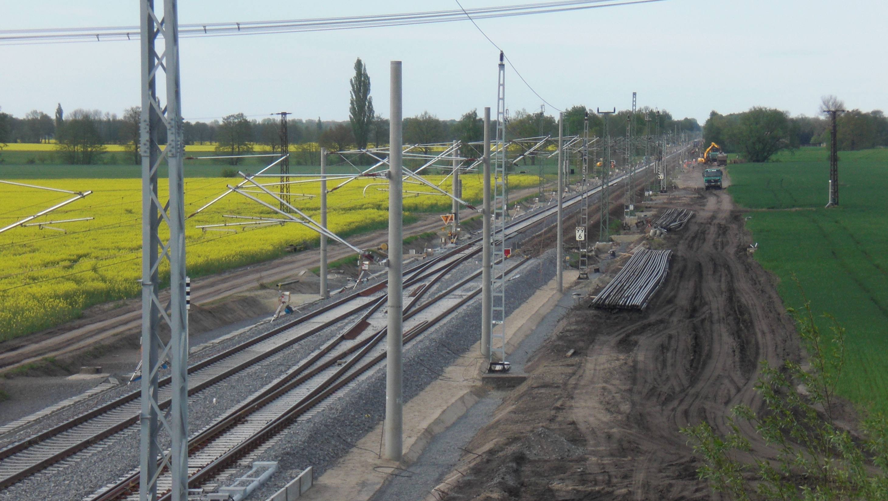 Expansion of the Berlin–Dresden railway at Doberlug-Kirchhain